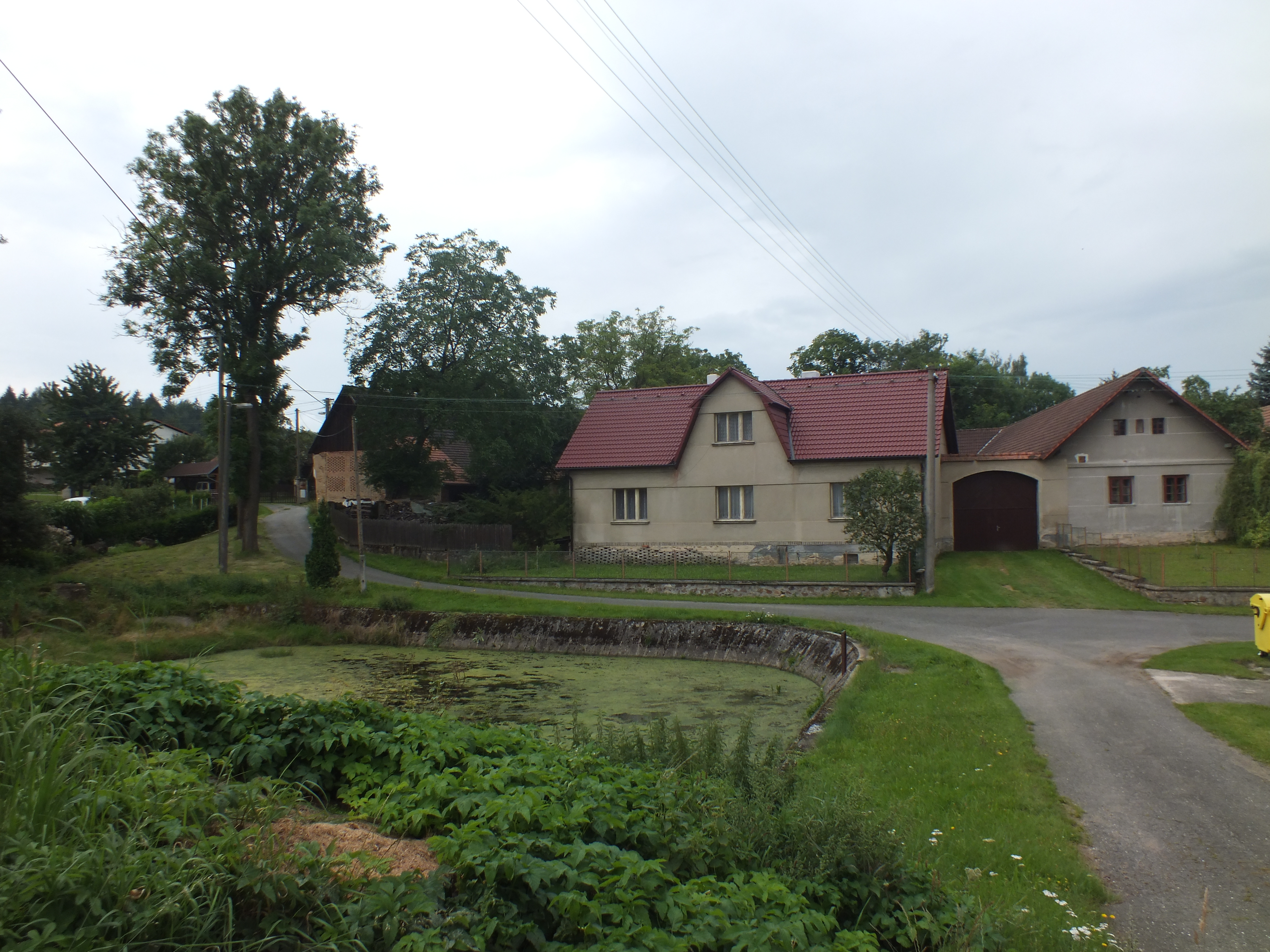 The house No. 3 in Malovidy